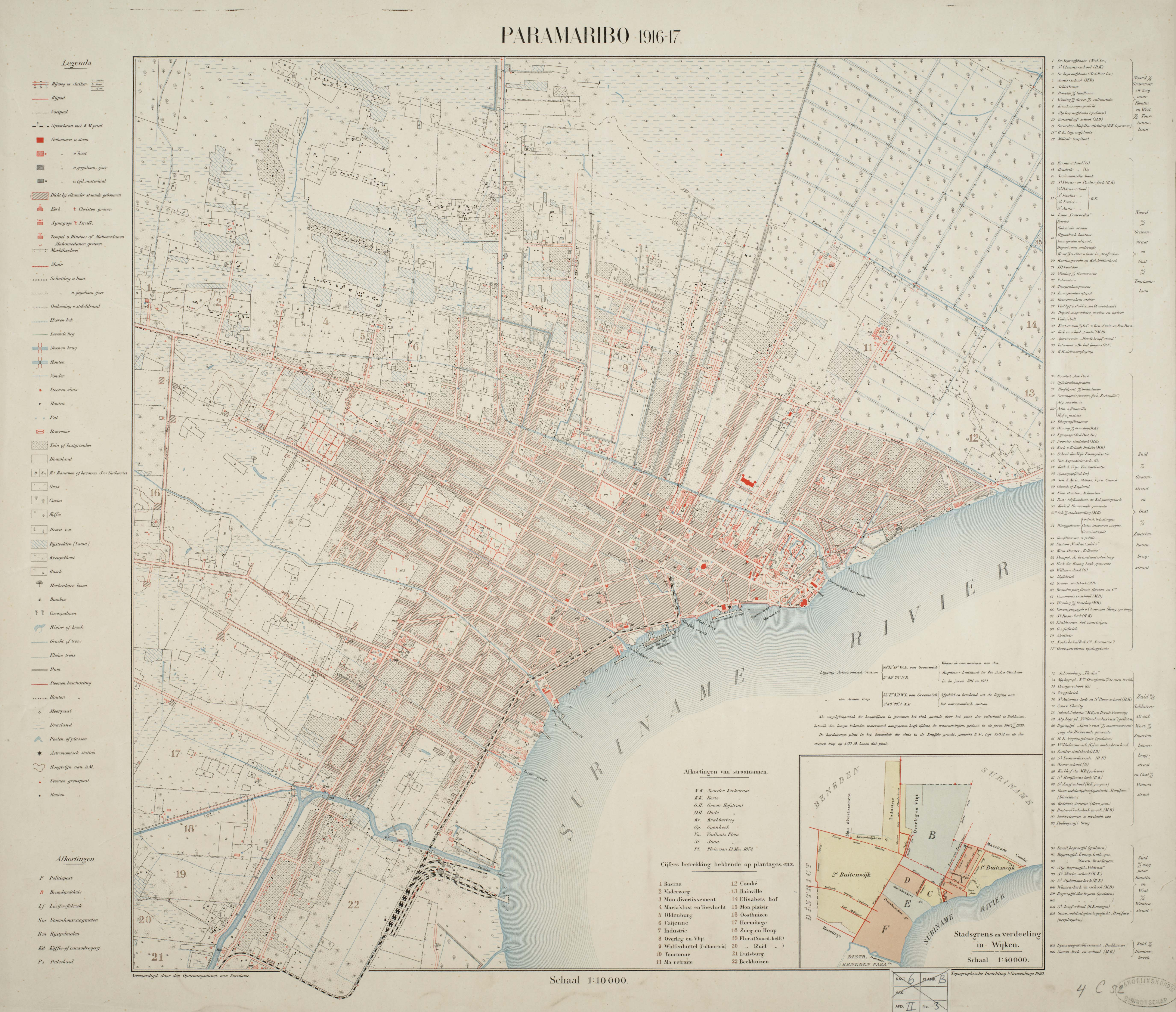 Map of Paramaribo from 1920, showing the situation around 1916-1917